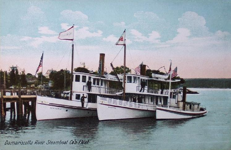 Damariscotta Steamboat Company's fleet, Damariscotta, ME; from a 1906 postcard.